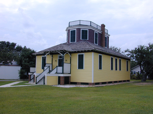 Hatteras Weather Bureau Station at Cape Hatteras National Seashore, North Carolina, USA